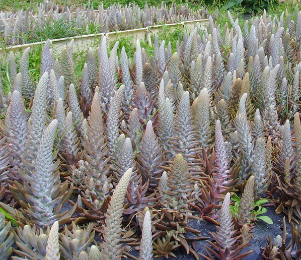 Orostachys Japonica